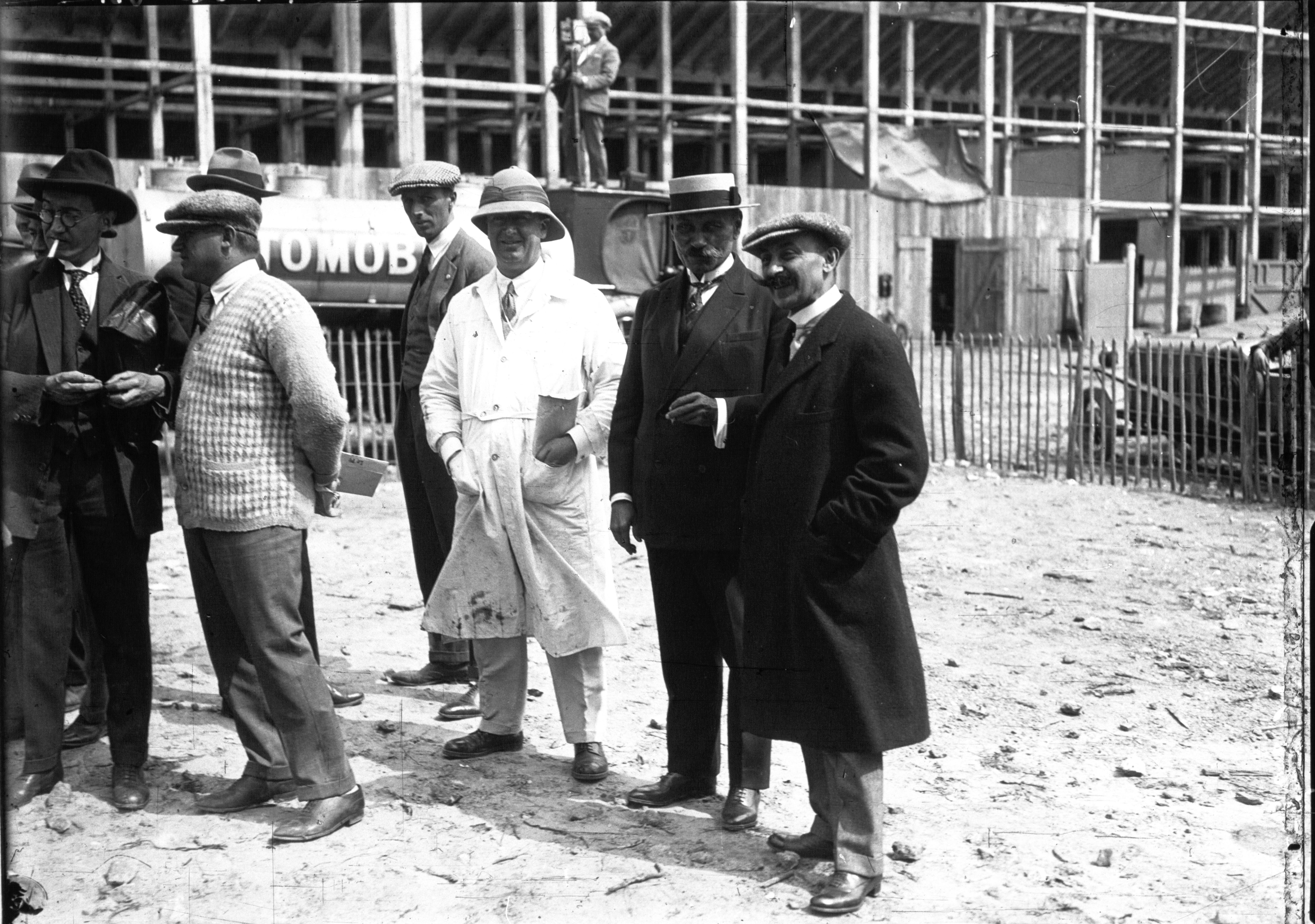 Ettore Bugatti at the 1925 French Grand Prix